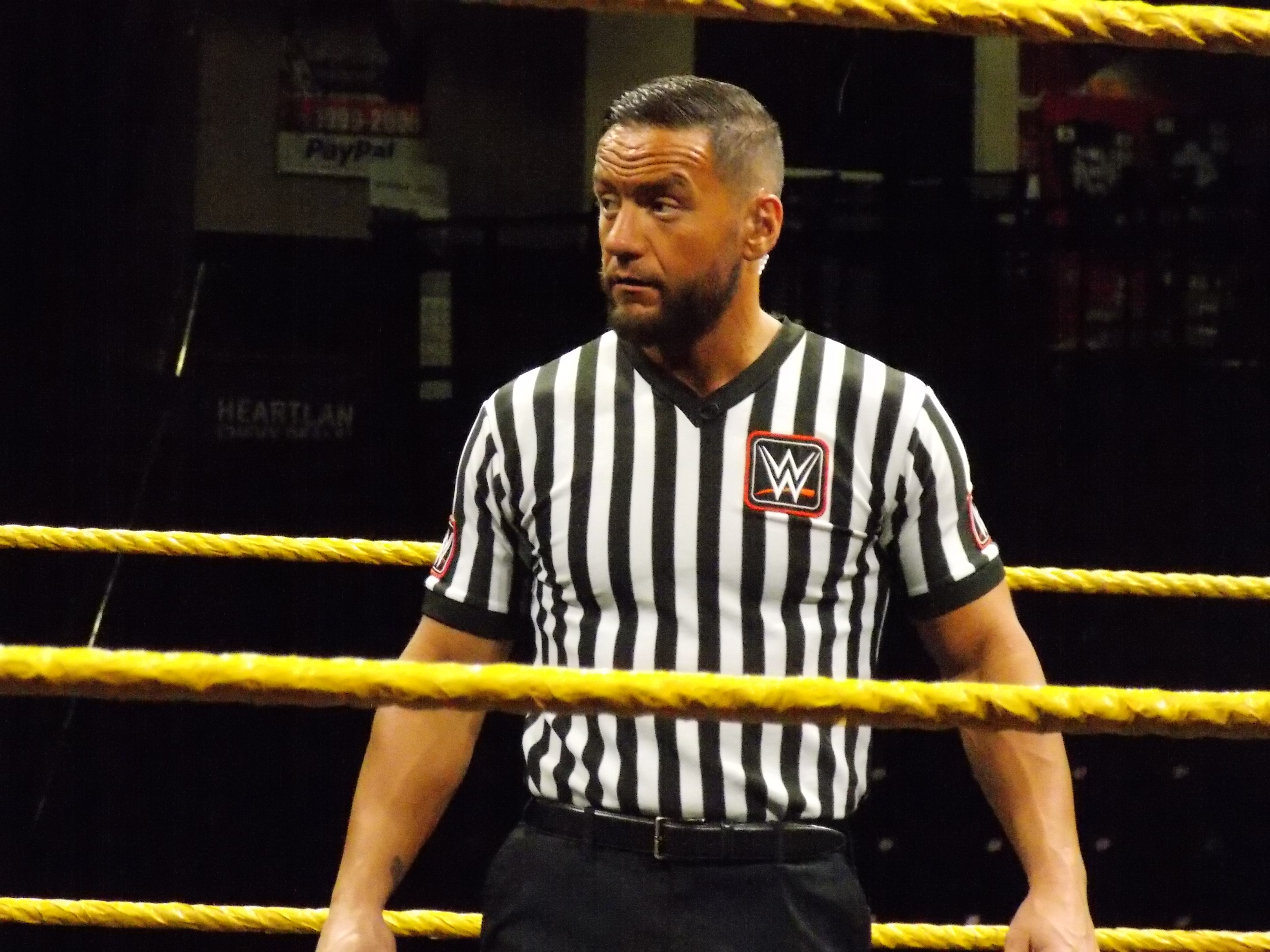 Drake Wuertz at an NXT Live Event in Omaha, Nebraska, USA on Thursday, April 25, 2019